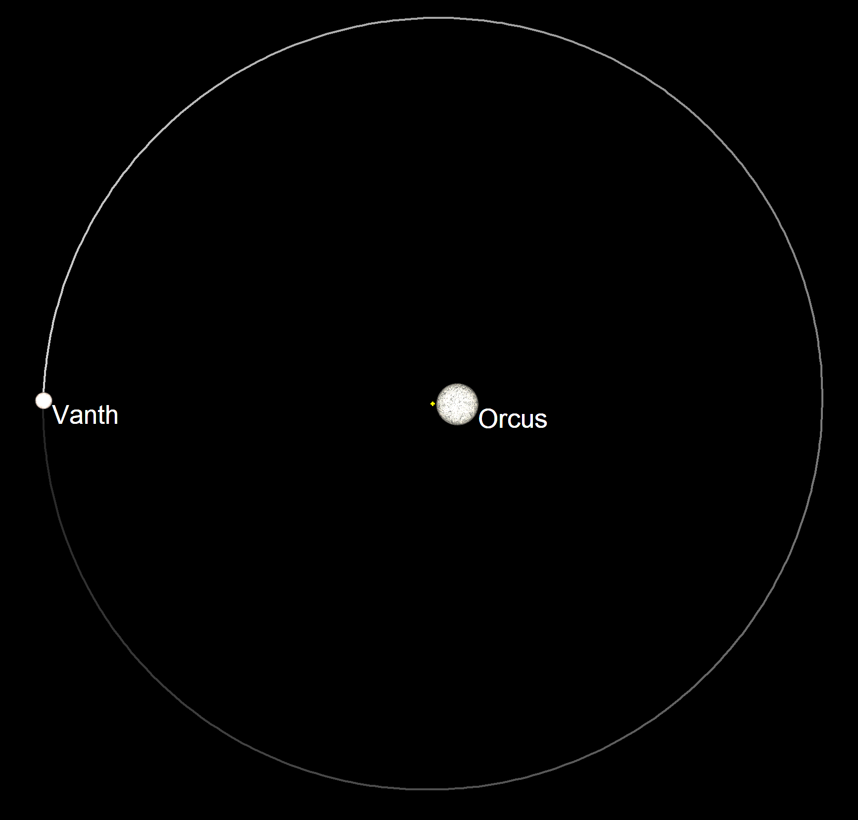 Kuiper belt object Orcus and moon Vanth's circular orbit (tilted view), with properly scaled diameters. The barycenter is yellow cross just outside of Orcus.